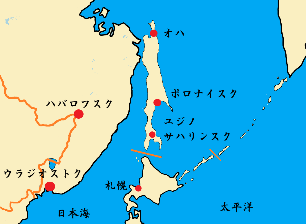 The map of Sakhalin and her surroundings. (Japanese ver)